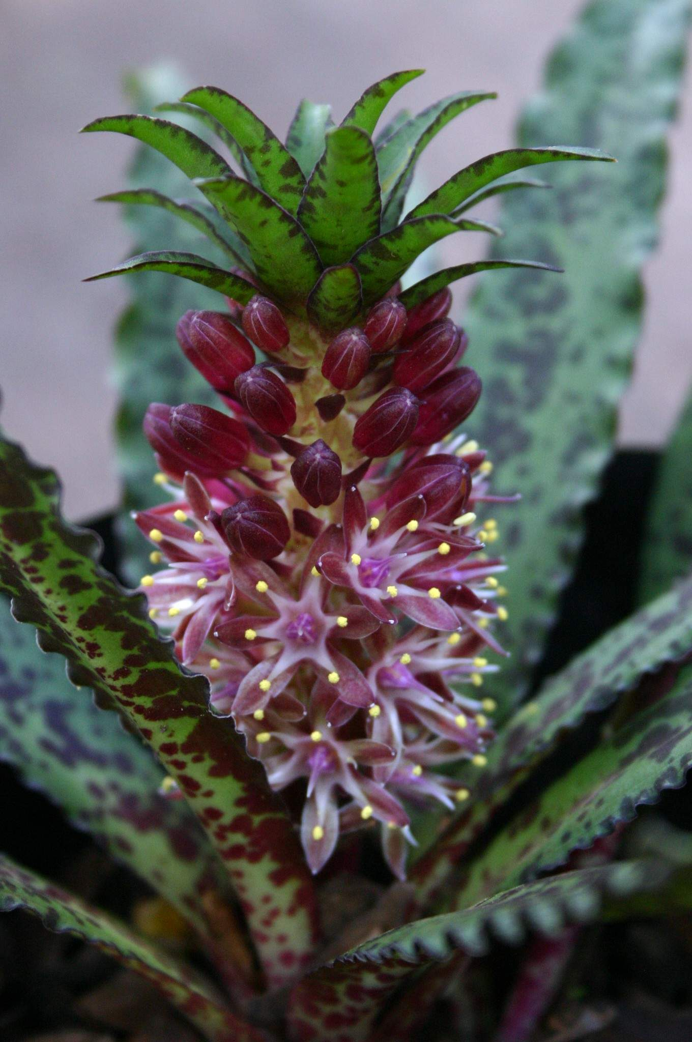 Inflorescence of Eucomis vandermerwei I.Verd., cultivated in Honeydew garden, Johannesburg, South Africa